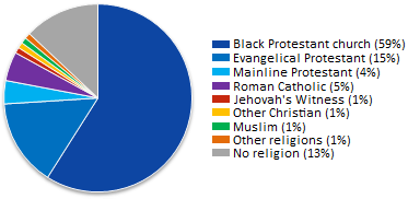 Pie chart of religions of African Americans